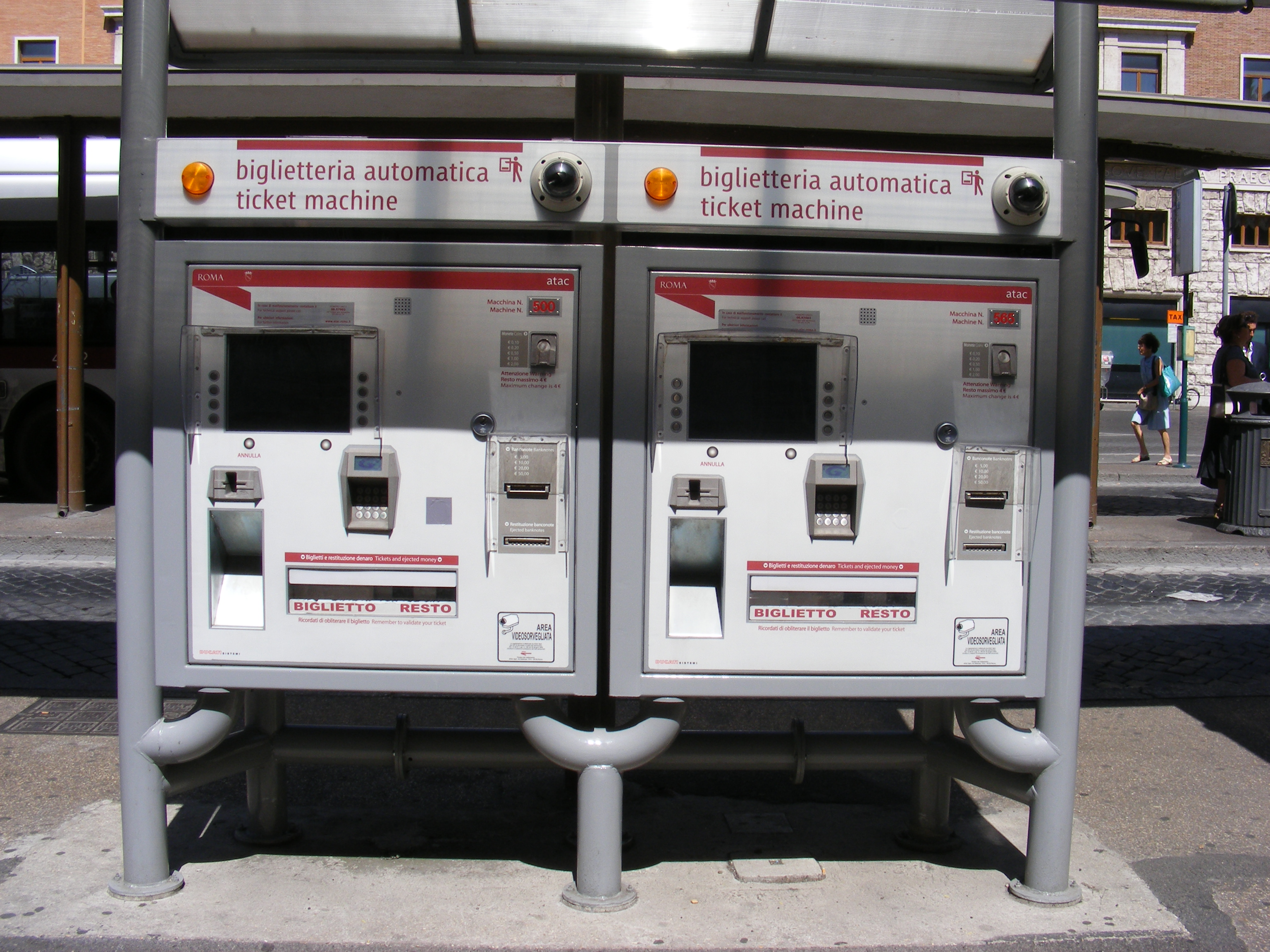 ATAC ticket machine (bus), Rome.